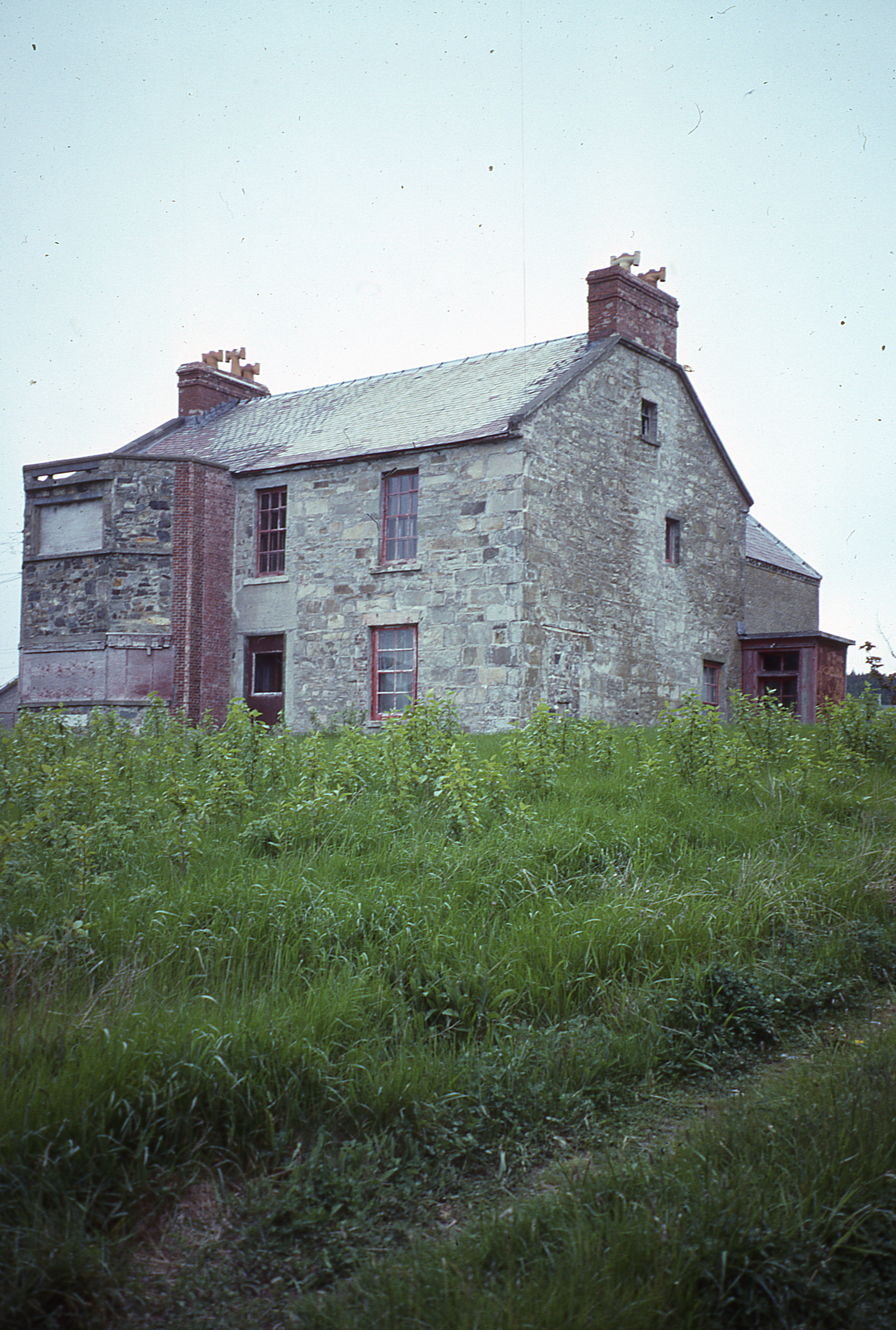 Photo of the vacant Ridley Hall in Harbour Grace, Newfoundland, taken circa July 1993. Digitized from the Heritage Foundation of Newfoundland and Labrador 35mm slide collection.